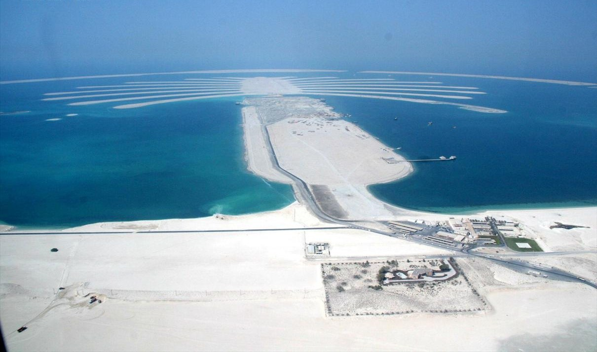 This is a photo showing the Palm Jebel Ali in Dubai, United Arab Emirates on 18 October 2007. The photo was taken on from a helicopter ride courtesy of Nakheel.